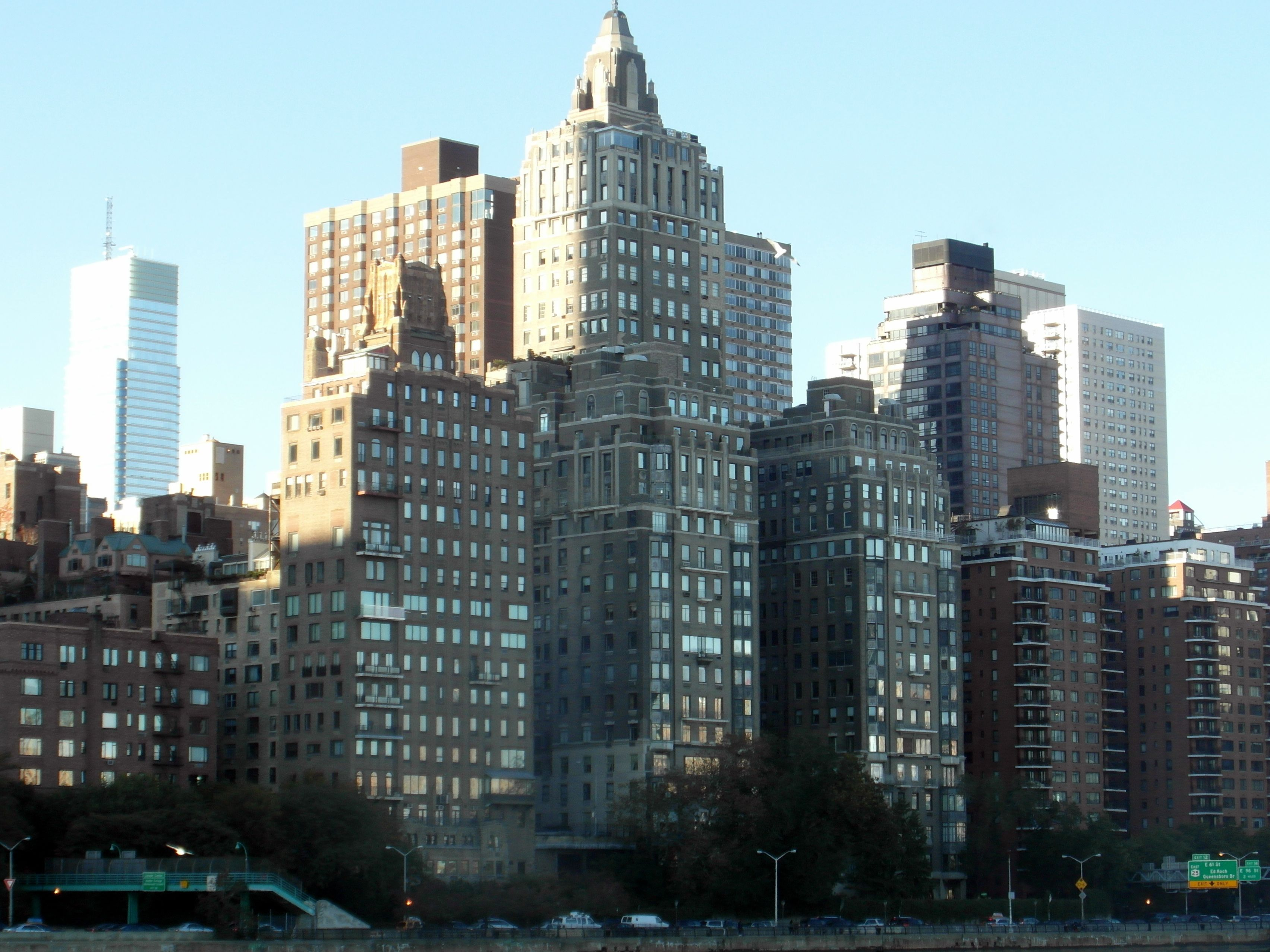 435 East 52nd Street, New York. Designed by Bottomley, Wagner & White and completed in 1931, an exclusive apartment house also housing the River Club - before the construction of FDR Drive, it had its own private dock for yachts